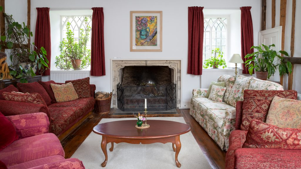 The Abbey, Sutton Courtenay, Oxfordshire, England